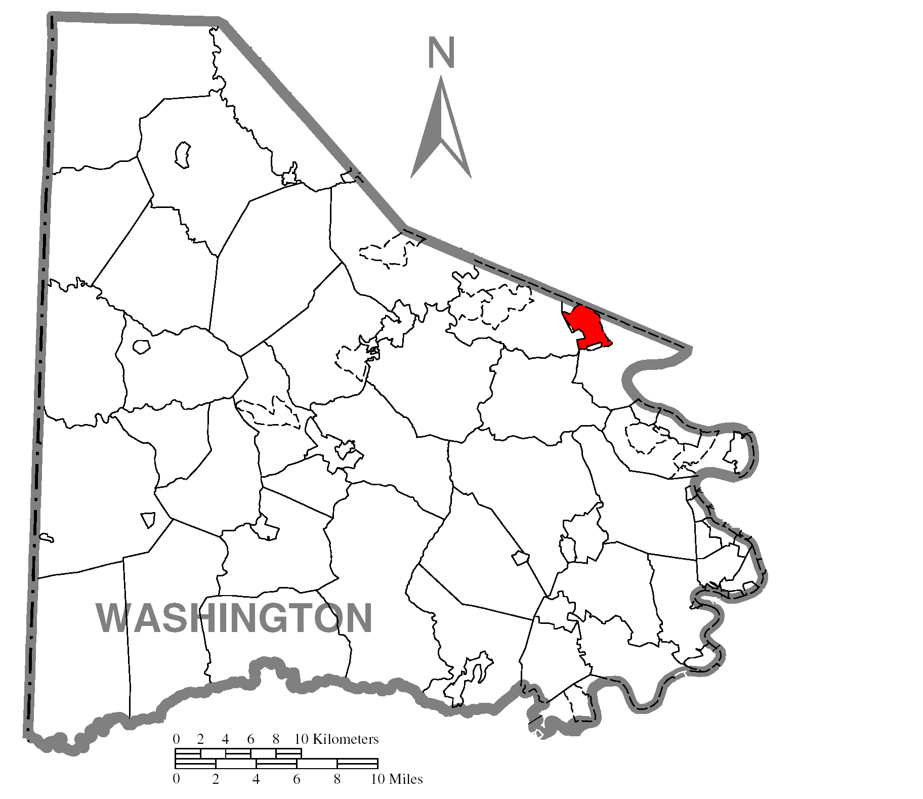 Map of Washington County higlighting Gastonville.